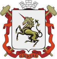 Coat of arms of the town of Lysva (1998) in the territory of Perm, Russia.